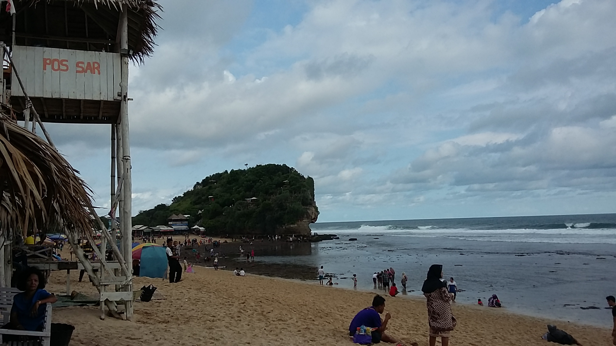 Indrayanti Beach in Gunungkidul, which has two islands, one of them looked similar to the famous Tanah Lot in Bali